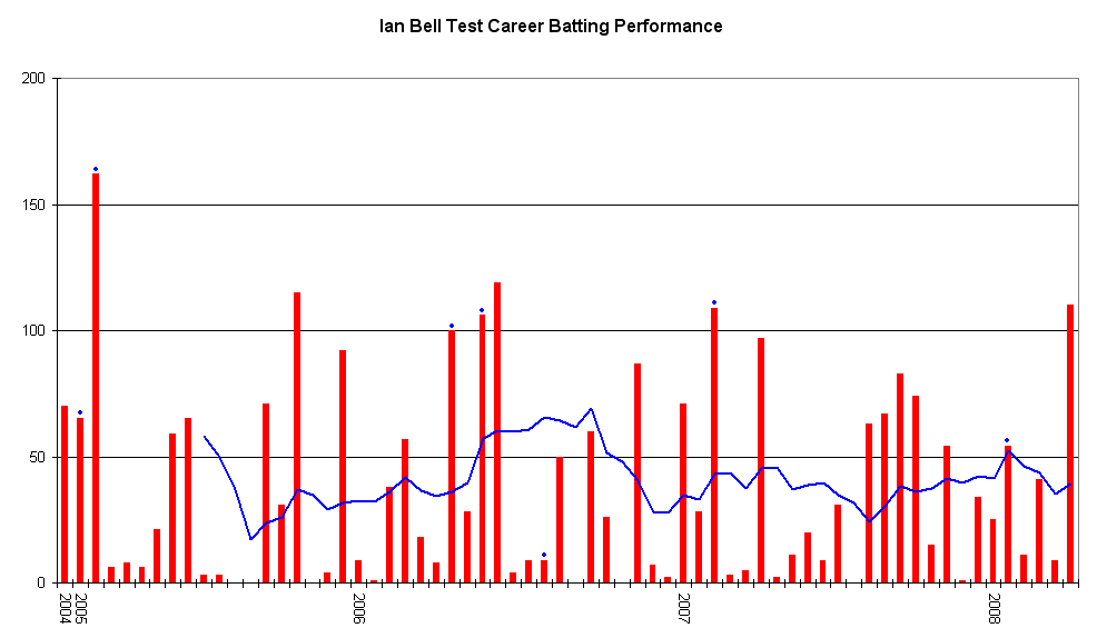 This graph details the Test Match performance of Ian Bell. It was created by Raven4x4x. The red bars indicate the player's test match innings, while the blue line shows the average of the ten most recent innings at that point. Note that this average cannot be calculated for the first nine innings. The blue dots indicate innings in which Bell finished not-out. This graph was generated with Microsoft Excel 2002, using data from Cricinfo [1] and Howstat [2]. The information in this graph is current as of 30 March 2008.